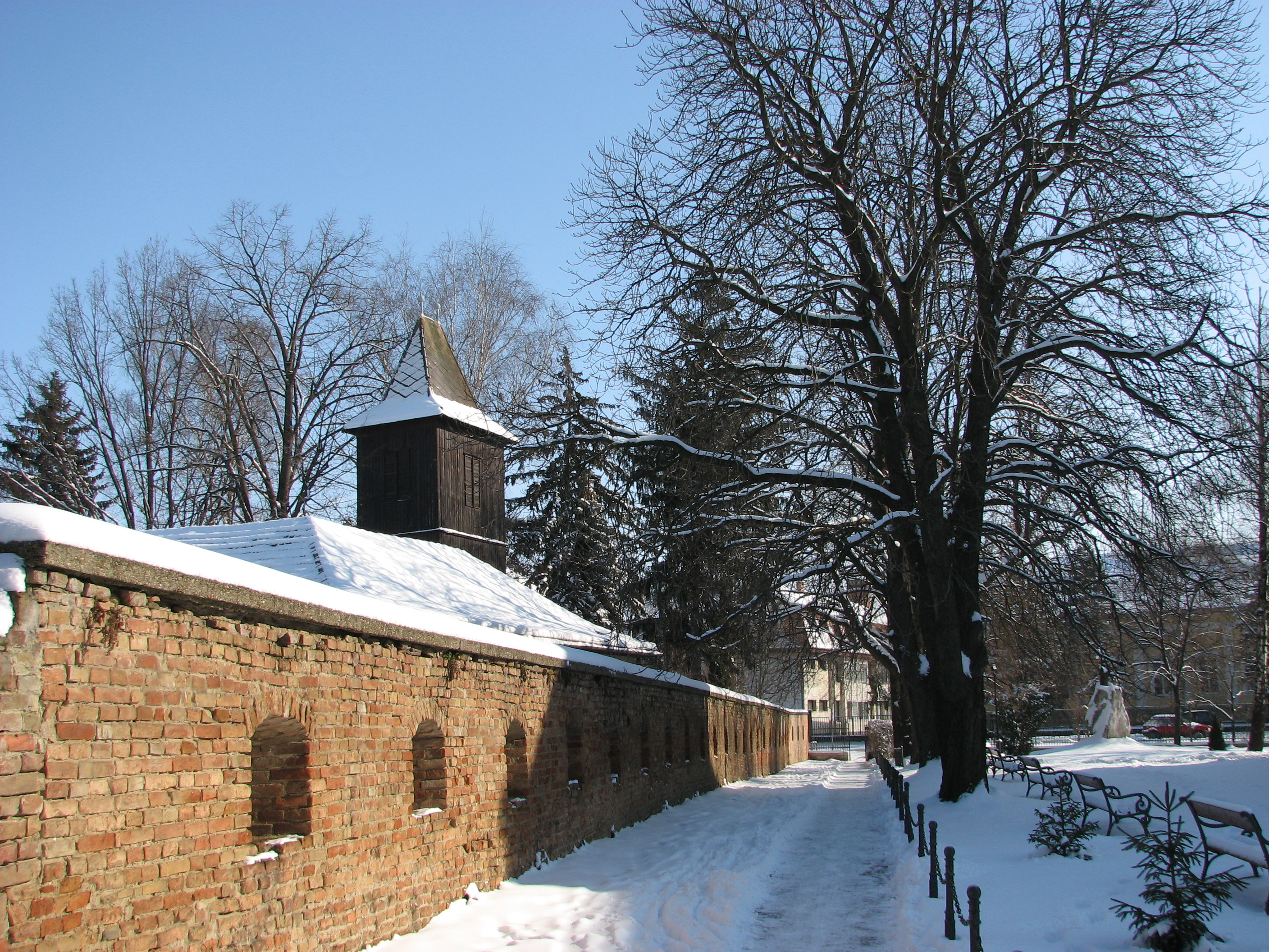 The remains of the fortified Cathedral' wall of Hajdúdorog, Hungary. The strong wall used to defend the Greek Catholic Cathedral of the town. Nowadays the remains of the wall can be seen in the northern part of the church garden. It is on the list of the national monuments - as it was built around 400 years ago. - Tokaji street, Hajdúdorog, Hajdú-Bihar County, Hungary